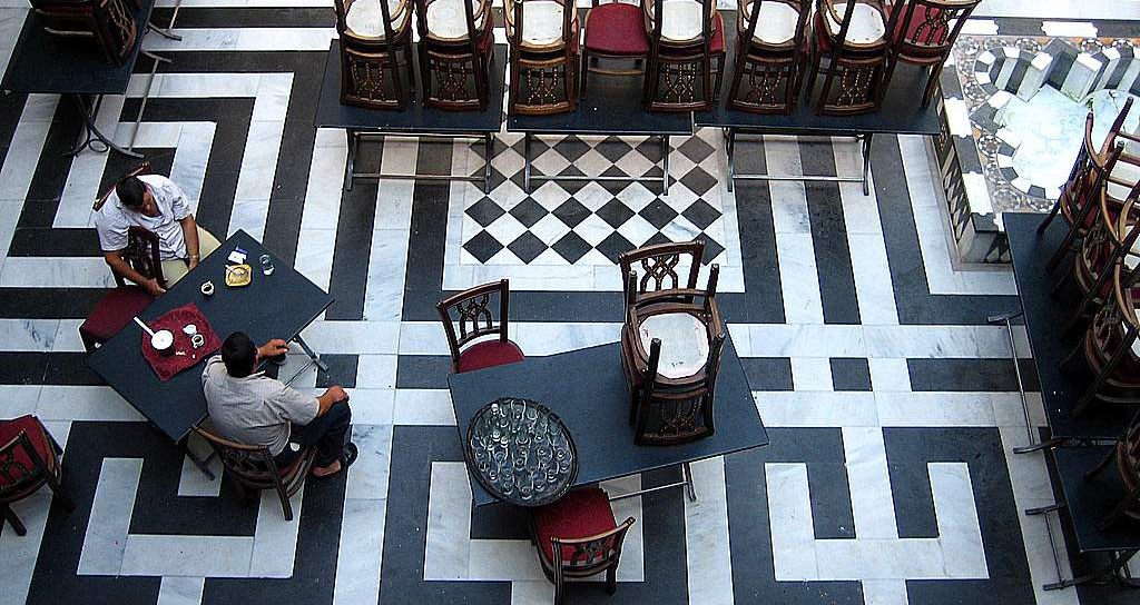 Beit al-Agha Restaurant - Hims, Syria. Photograph by Abdullah Habbal.